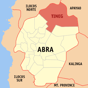 Map of Abra showing the location of Tineg